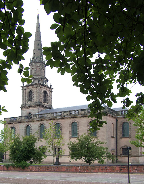 The Church of St. John in the Square, Wolverhampton Peter Hickman's comprehensive illustrated history of the building can be found at . Maybe, with an increasing number of apartments being built within the ring road, the churches, which were so busy in the 18th and 19th centuries, will welcome expanding congregations at last.